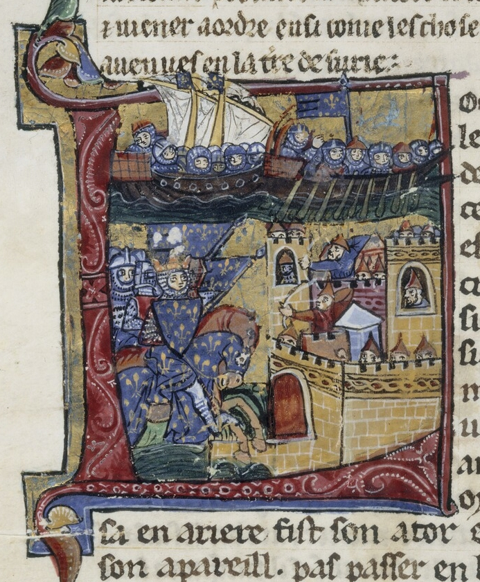 Départ de Louis IX pour la Croisade et siège de Damiette (1249)